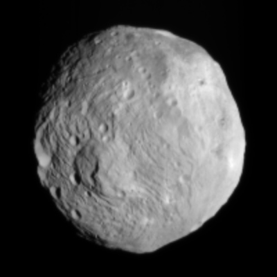 NASA's Dawn obtained this image with its framing camera on July 9, 2011. It was taken from a distance of about 26,000 miles (41,000 kilometers) away from the protoplanet Vesta. Each pixel in the image corresponds to roughly 2.4 miles (3.8 kilometers).